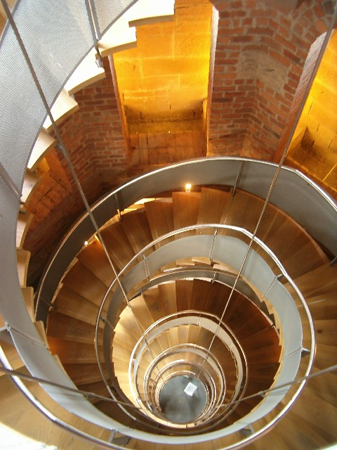 Spiral staircase. Looking down the Mackintosh Tower at The Lighthouse